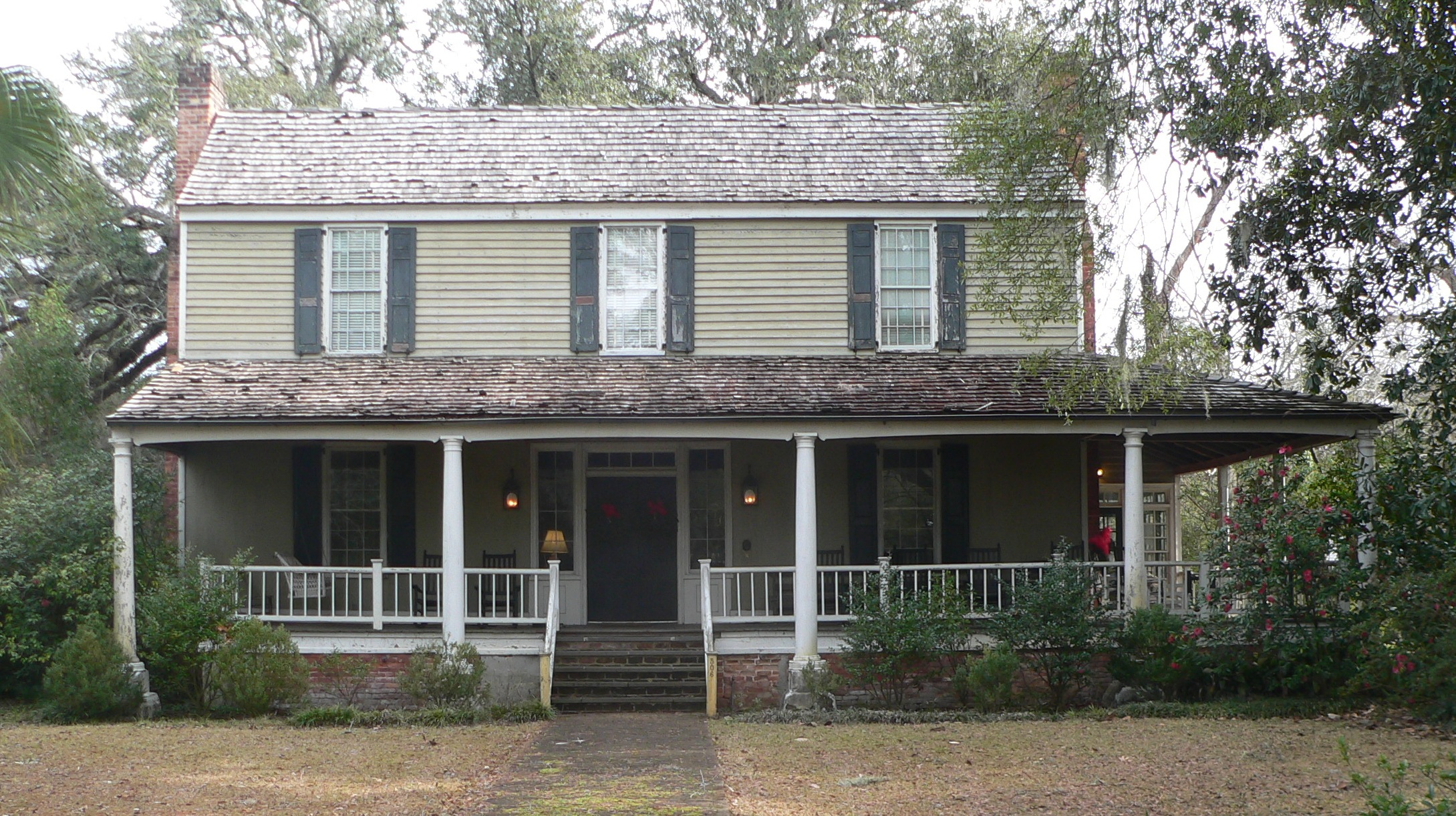 Scott house, located at 506 Live Oak Street in Kingstree, South Carolina.